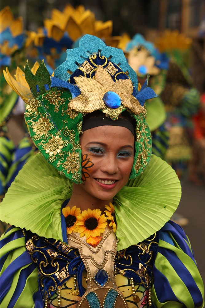 Sinulog 2010, Cebu City